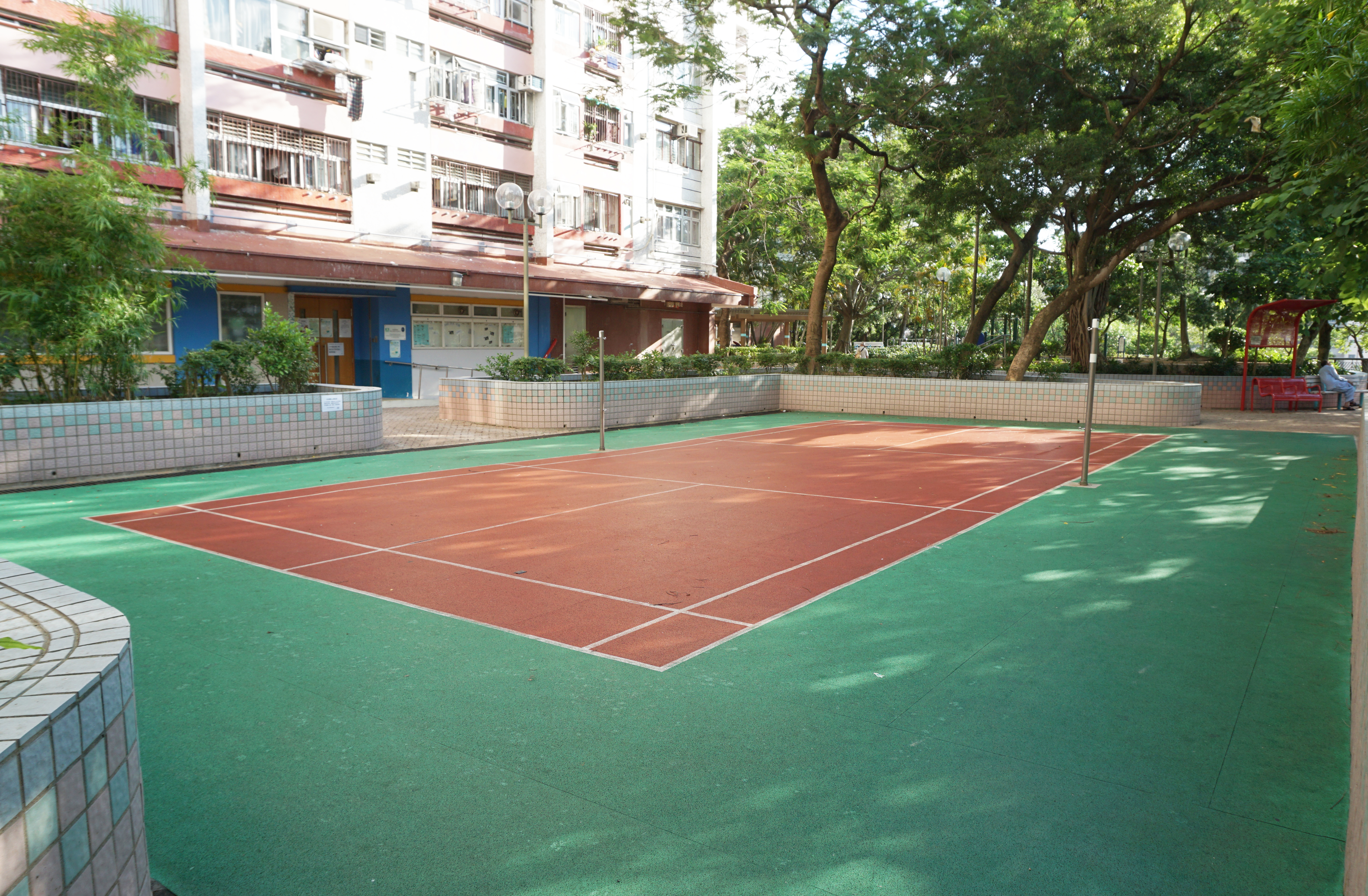 Shek Lei Estate in Kwai Chung, Hong Kong.